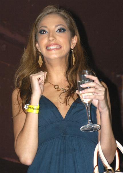 April 5 2007: XRCO Awards 2007.